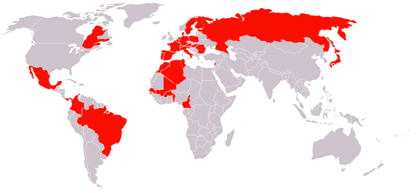 Pays avec des mouvements de l'école moderne / countries with mouvements of the Freinet pedagogy (modern school) / Länder mit Freinet-Bewegungen (Moderne Schule)